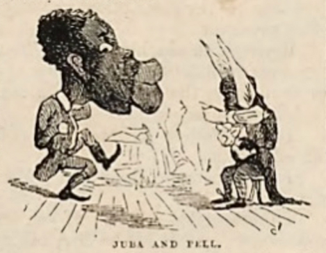 Caricature of the African American dancer Master Juba and his fellow blackface minstrel, Gilbert W. Pell, from their British tour during the 1848 theatrical season. The image shows Juba with knees bent and legs spread, one leg poised to land hard on the floor; arms in close.